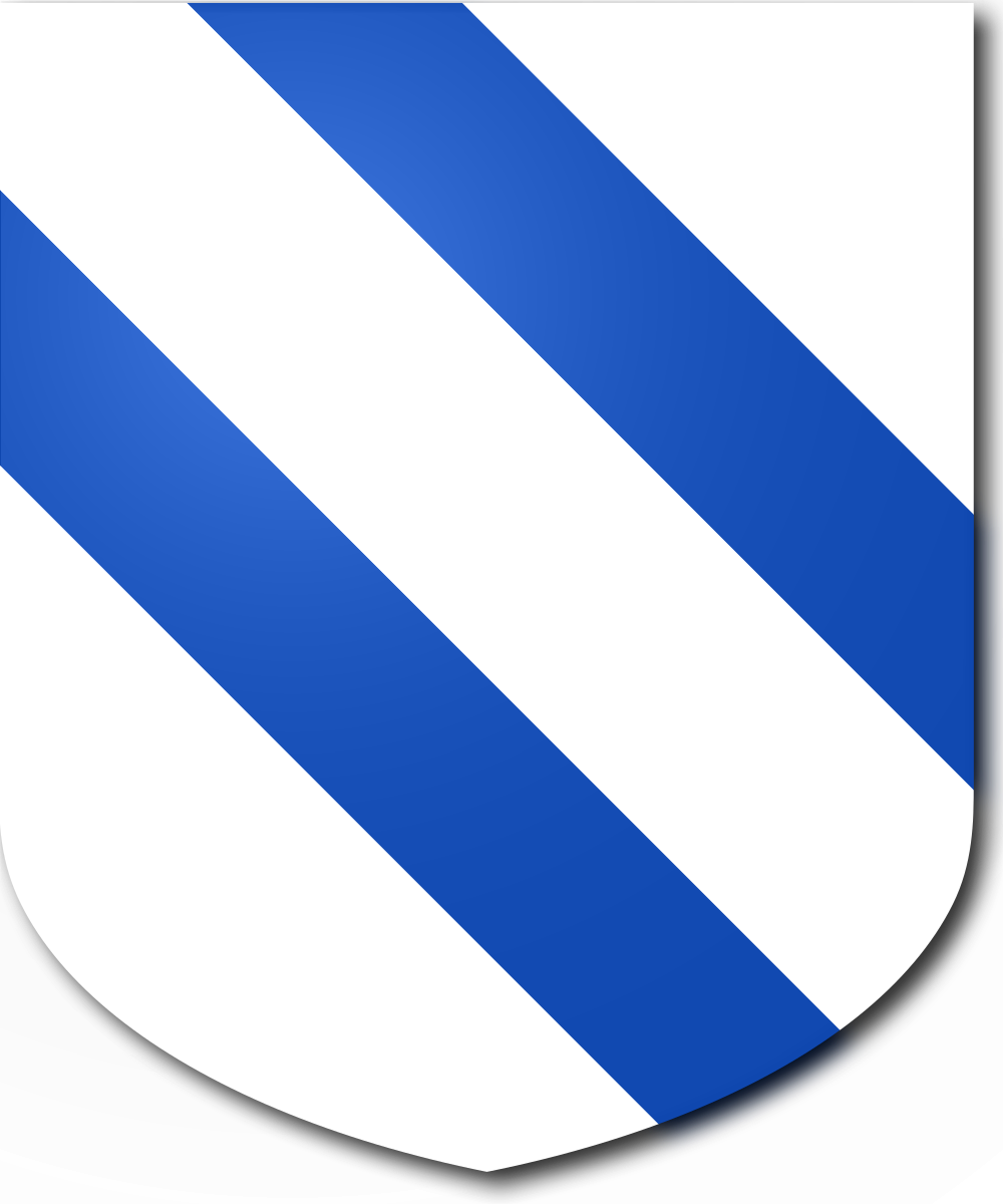 Ziani shield